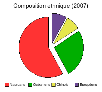 Diagram of the Nauru's ethnic composition (2007)